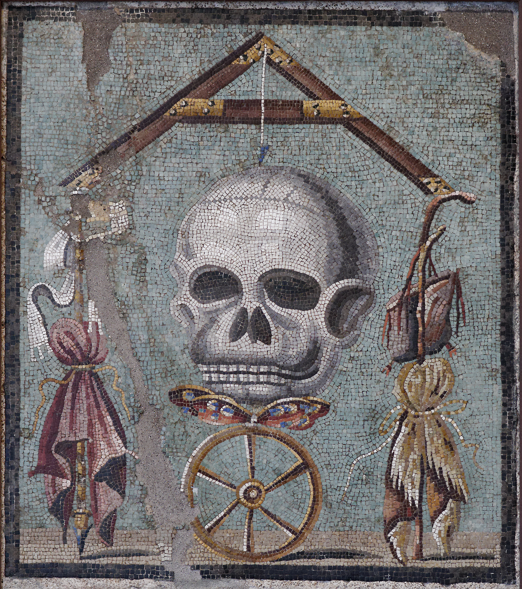 Roman mosaic representing the Wheel of Fortune which, as it turns, can make the rich (symbolized by the purple cloth on the left) poor and the poor (symbolized by the goatskin at right) rich; in effect both states are very precarious, with death never far and life hanging by a thread: when it breaks, the soul (symbolized by the butterfly) flies off. And thus are all made equal.